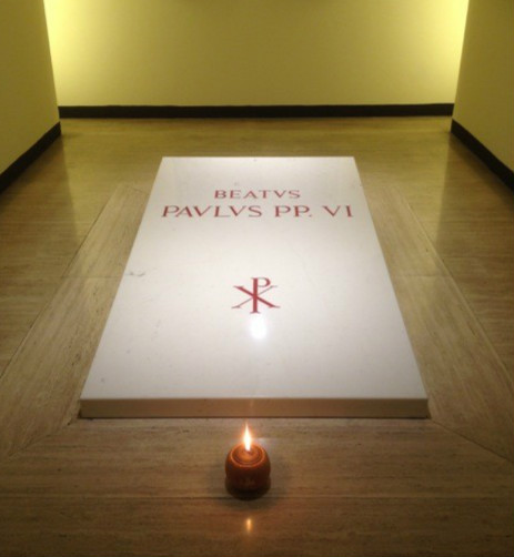 The tomb of Blessed Paul VI as taken in October 2014.